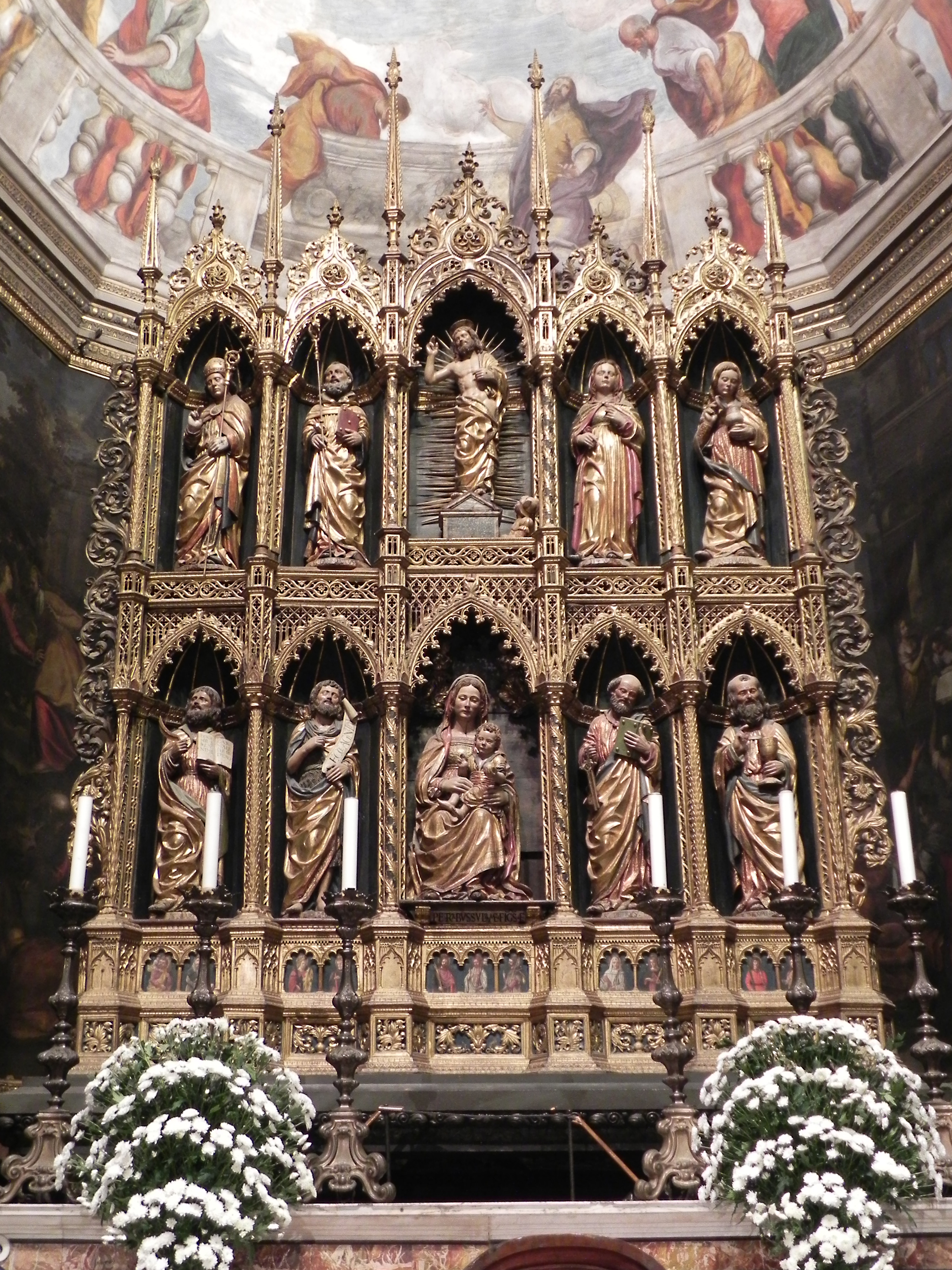 Salò (BS Italy) Cathedral Main Altar of the church Frame by Bartolomeo da Isola Dovarese Statues by Pietro Bussolo Polychrome and golded wood XVI century - 1500-1501